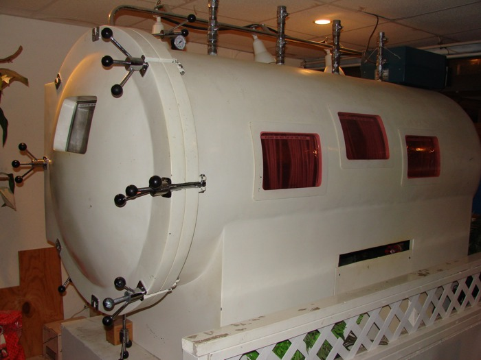 The world's first hyperbaric biosphere, housed and on display in the temporary building of the Creation Evidence Museum in Glen Rose, Texas.